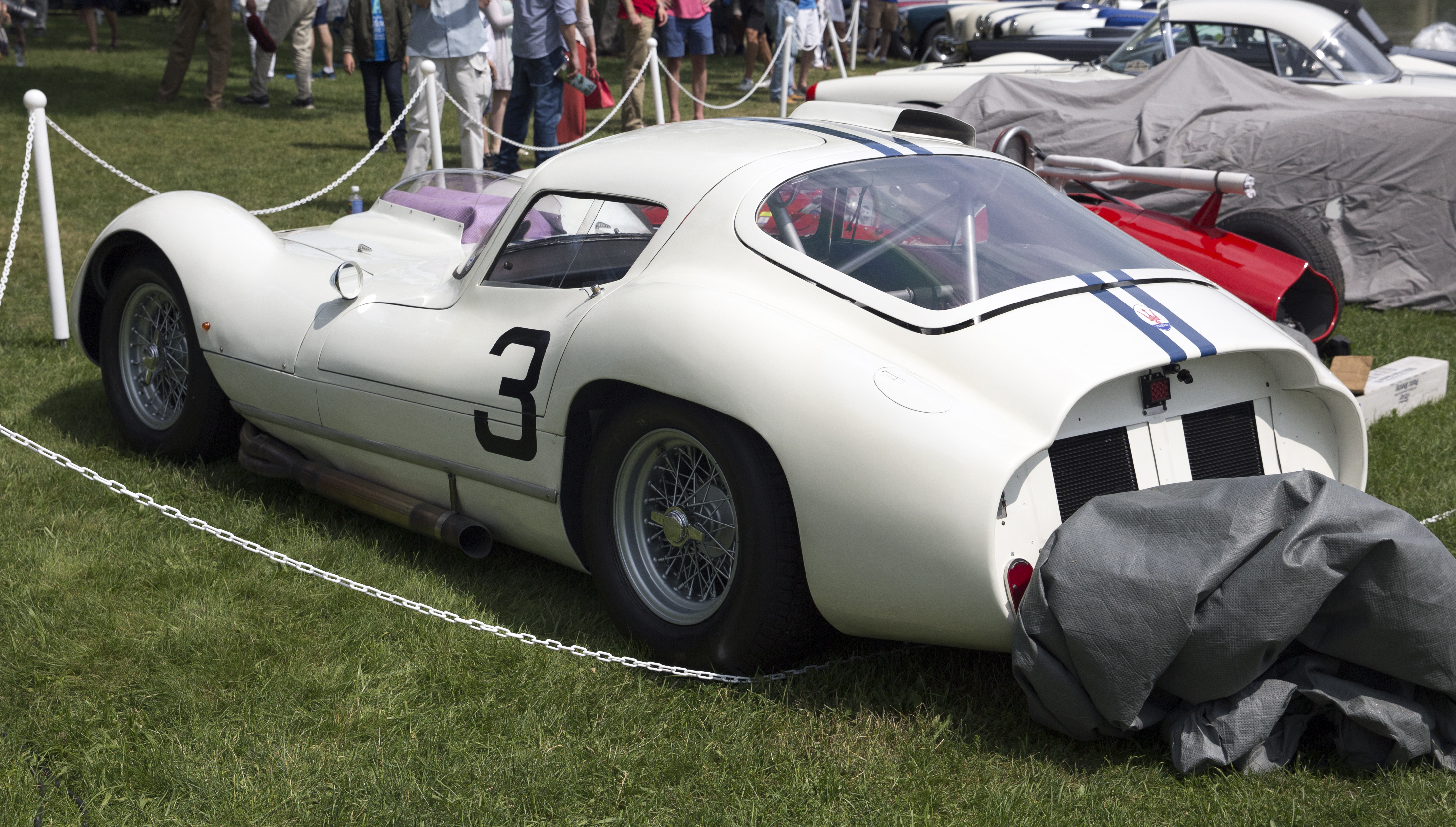 A 1962 Maserati Tipo 151 (chassis 151.006, the third and last built) at the 2018 Greenwich Concours d'Elegance. Raced at Le Mans and then in various American races, without much luck. A Chuck Jones tried to sell it in mid-1963, but when no one was interested he converted it for road use, including the change to a clamshell bonnet to ease maintenance. The car's bonnet was recently restored to its original configuration by its owner Lawrence Auriana.